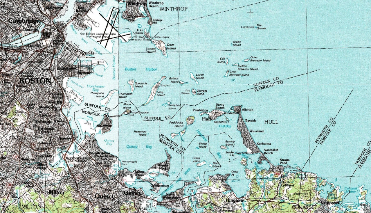 Topographical map of Boston Harbour. Captured from NASA World Wind, map by USGS.